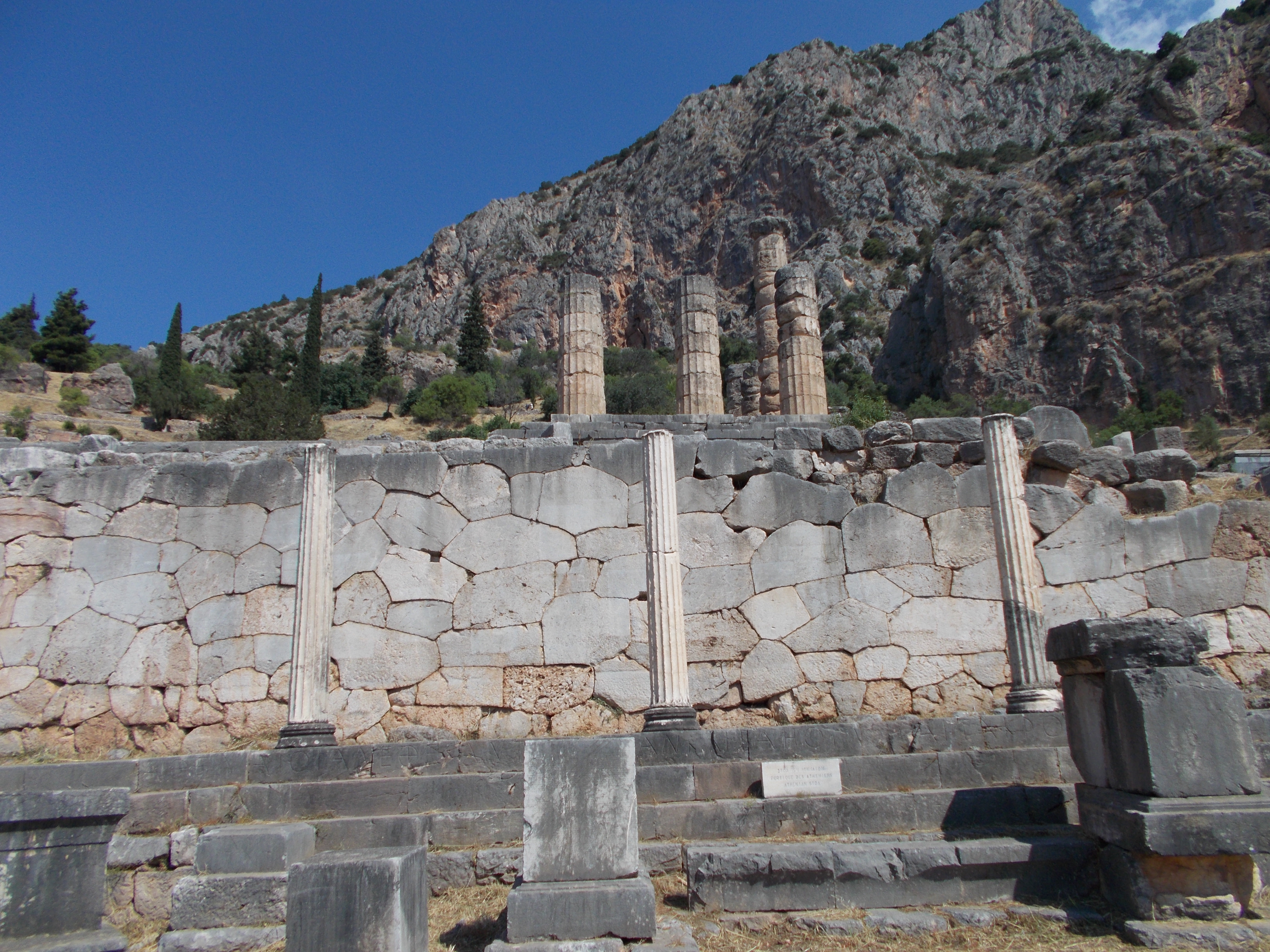 Temple of Apollo in Delphi, view from the South